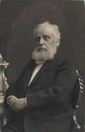 Rudolf Emil Elberling (1835-1927), Danish journalist and writer